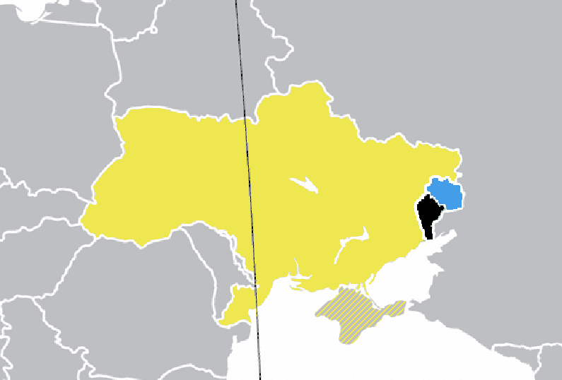 Map of the Donetsk People's Republic, Luhansk People's Republic, and Ukraine in May 2019.